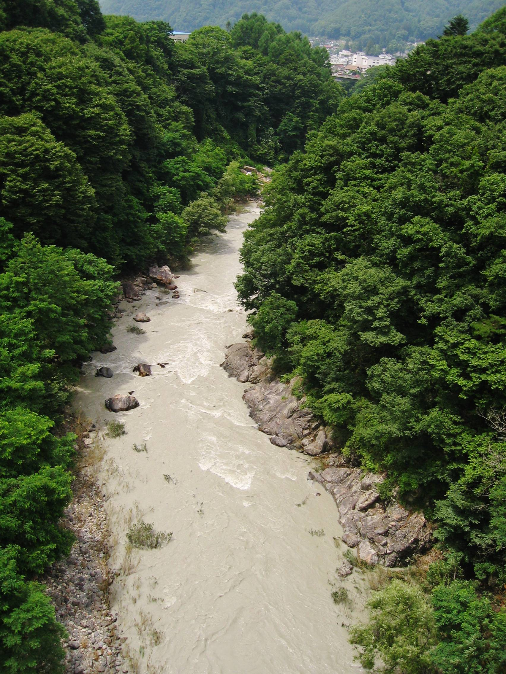 Mibu River.